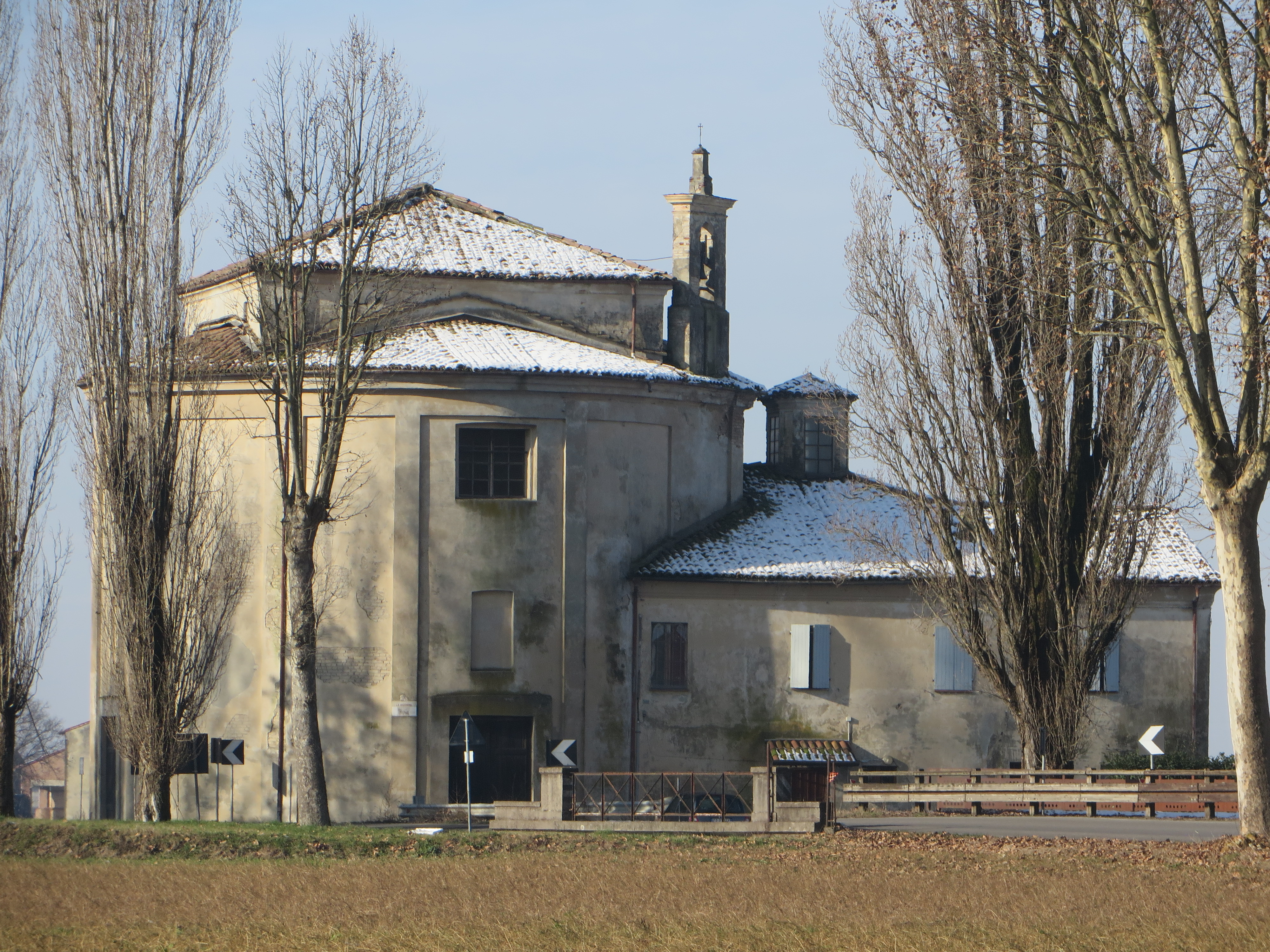 Serraglio Church